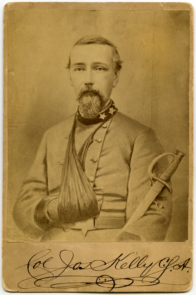 Col. Joseph Kelly, C.S.A., (d. 1870), Wilson’s Creek National Battlefield